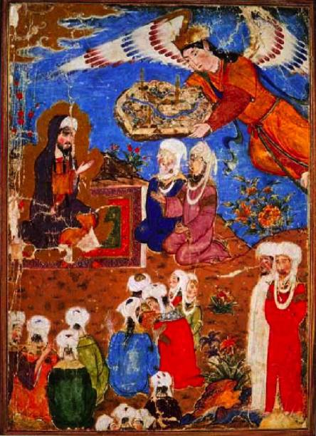 Presentation of the City Mi'raj-nama (Ascension of Muhammad). From the Sarai Albums. In the Topkapi Palace Library, Istanbul. Hazine 2154, folio 107a.